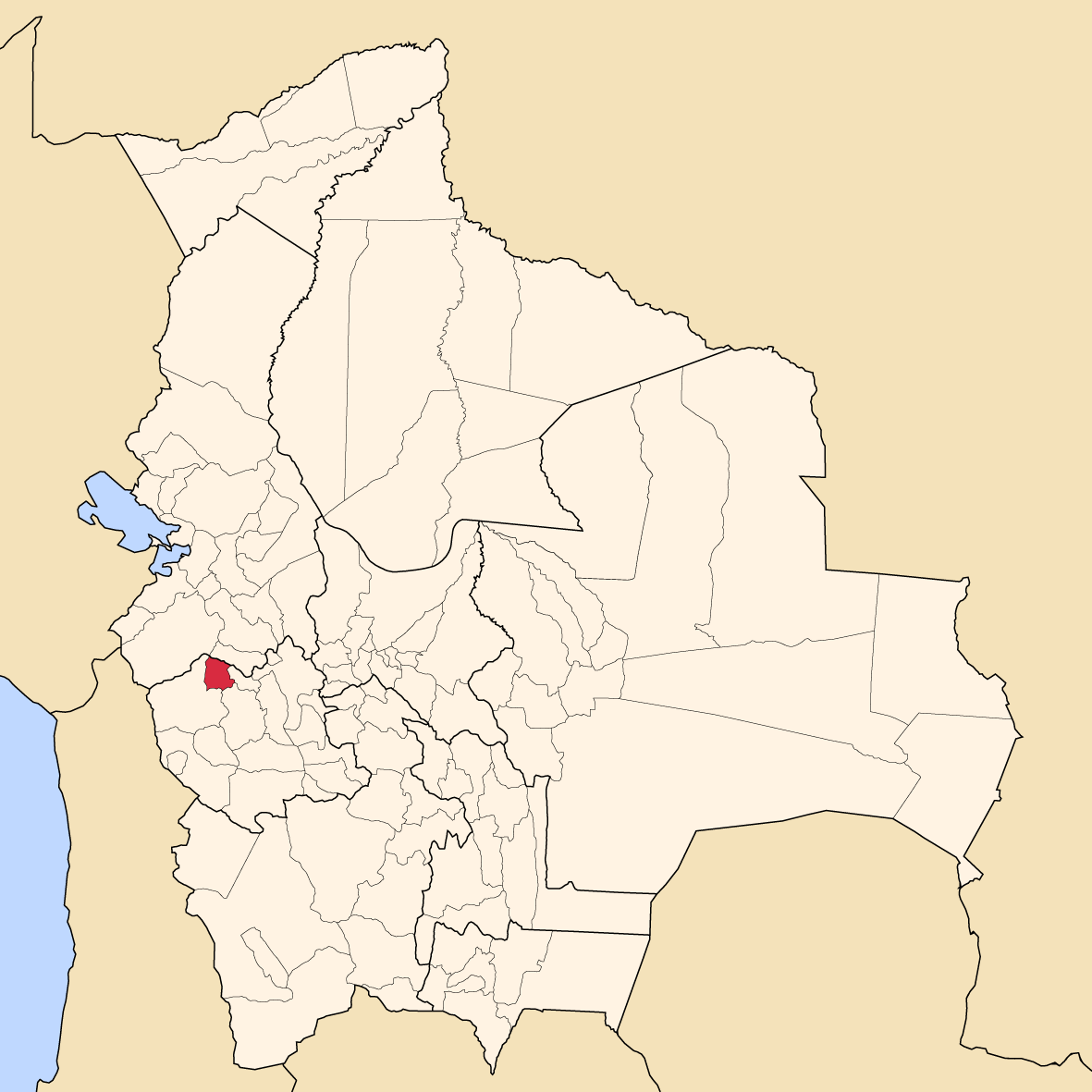 Map of Bolivia showing San Pedro de Totora province, Oruro